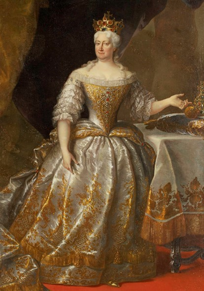 Portrait of Elisabeth Christine von Braunschweig-Wolfenbüttel (1691-1750)